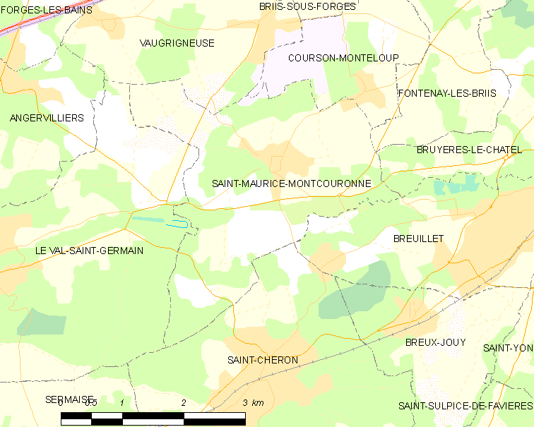 Map of French municipality Saint-Maurice-Montcouronne